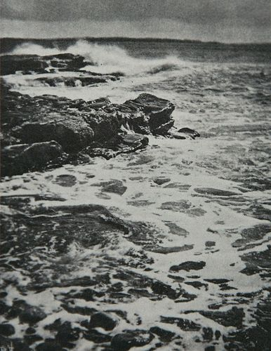 Break, Break, Break, on thy cold gray Stones, o Sea, a photograph by American photographer Rudolf Eickemeyer, Jr. (1862–1932). The title is a quote from the 1842 poem "Break, Break, Break" by Alfred Lord Tennyson.